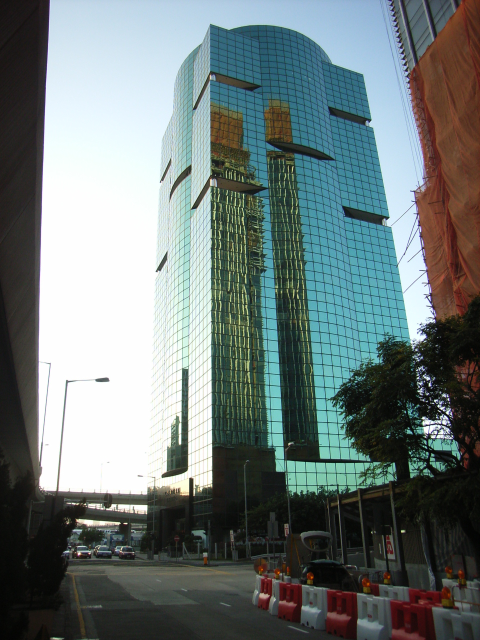 Ka Wah Centre, Java Road, North Point, Hong Kong Photographer is User:Huang Kong Hing